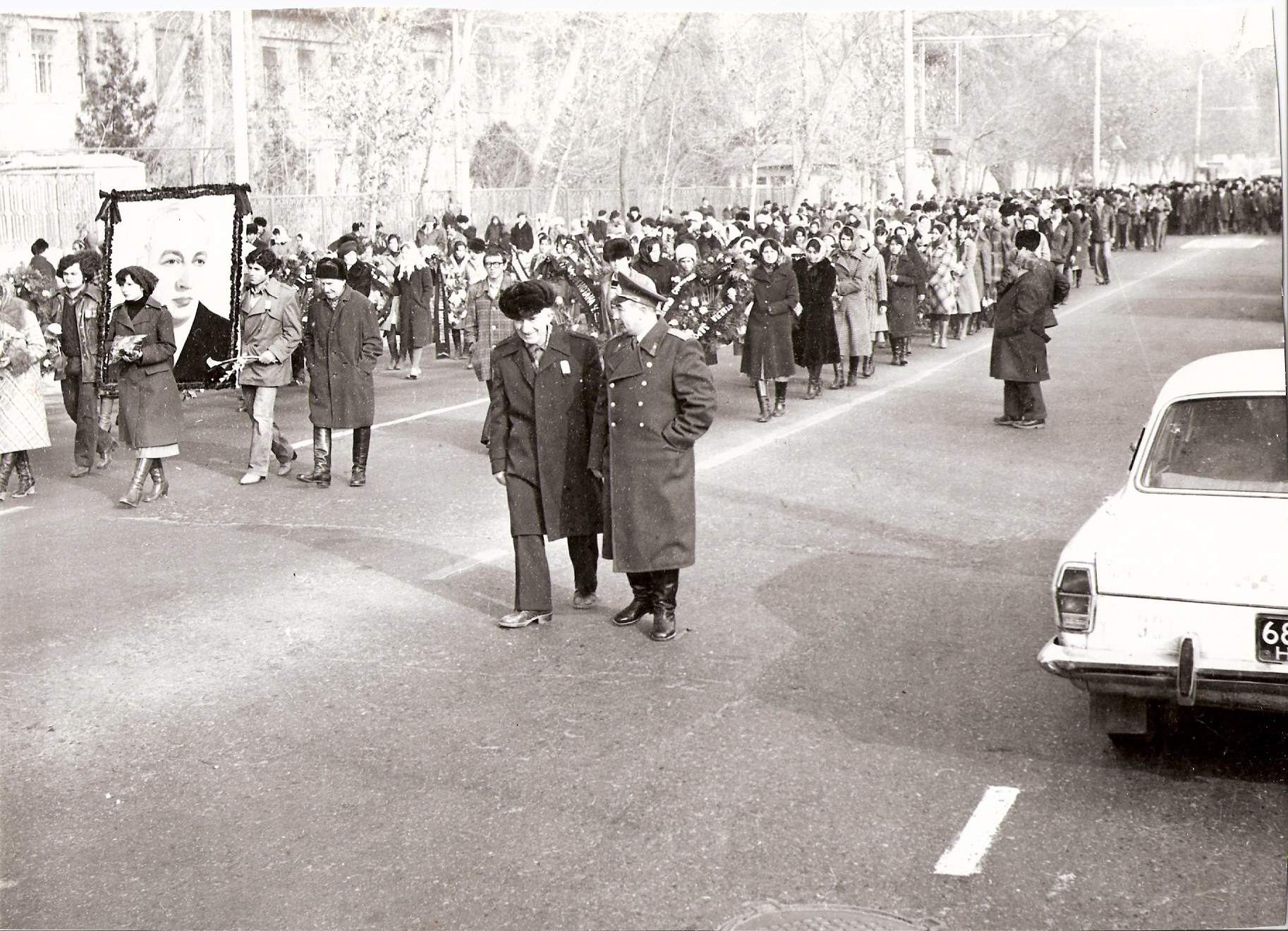 This picture was taken by my grandmother who is not alive any more. This is my picture, in my personal possession